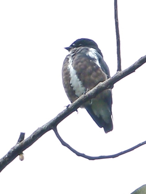 Dusky purpletuft (female) at Presidente Figueiredo, Amazonas, Brazil